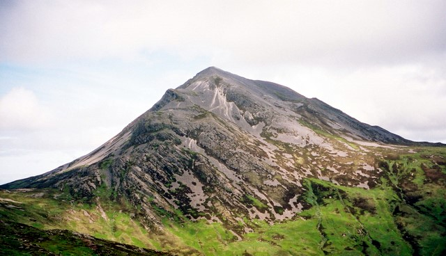 Beinn an Oir, south side